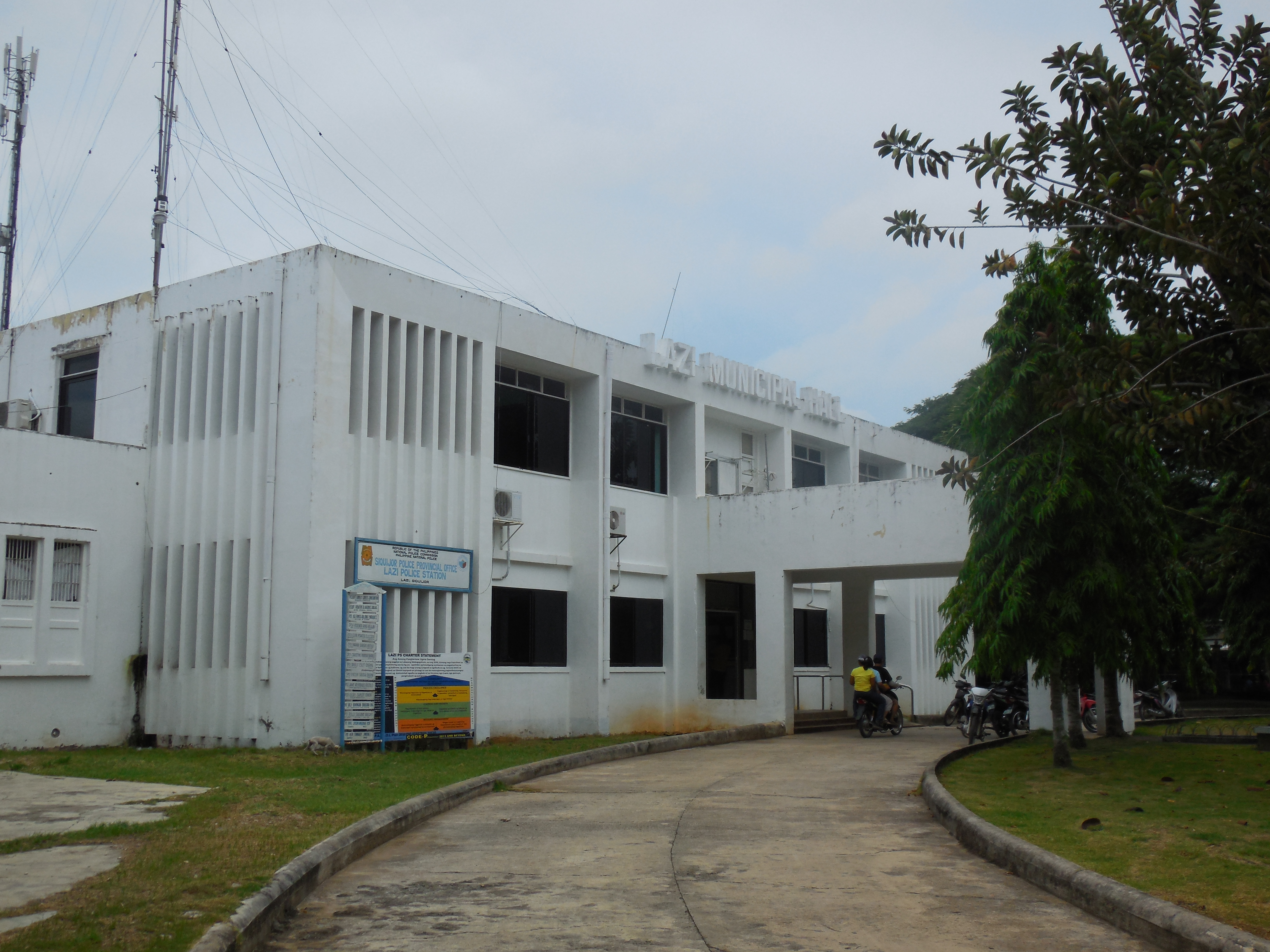 The municipal hall of Lazi, Siquijor, which is the seat of the municipal government.